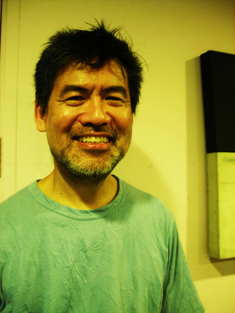 David Henry Hwang, Cultural Center of the Philippines